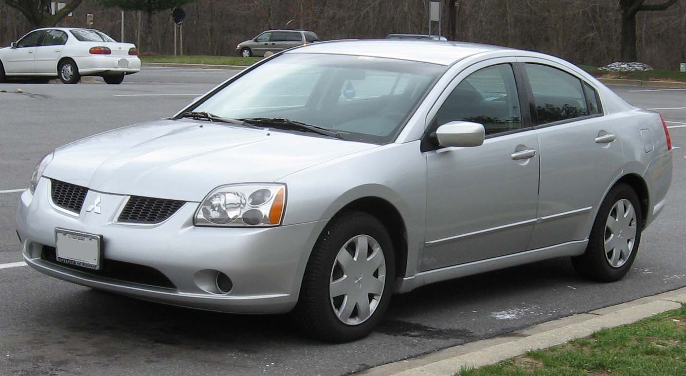 2004-2006 Mitsubishi Galant photographed in USA.